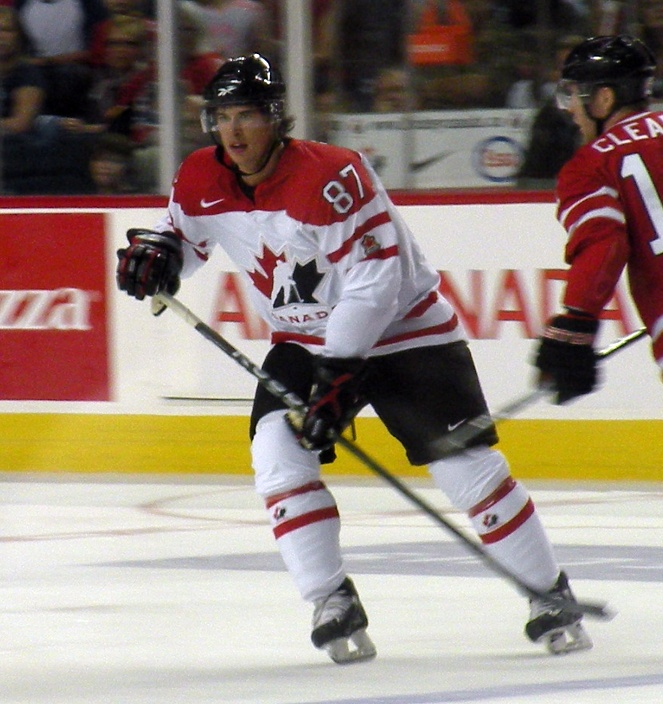 Ice hockey forward Sidney Crosby in action during Hockey Canada's Red-White game at pre-Olympic camp in Calgary, Alberta.